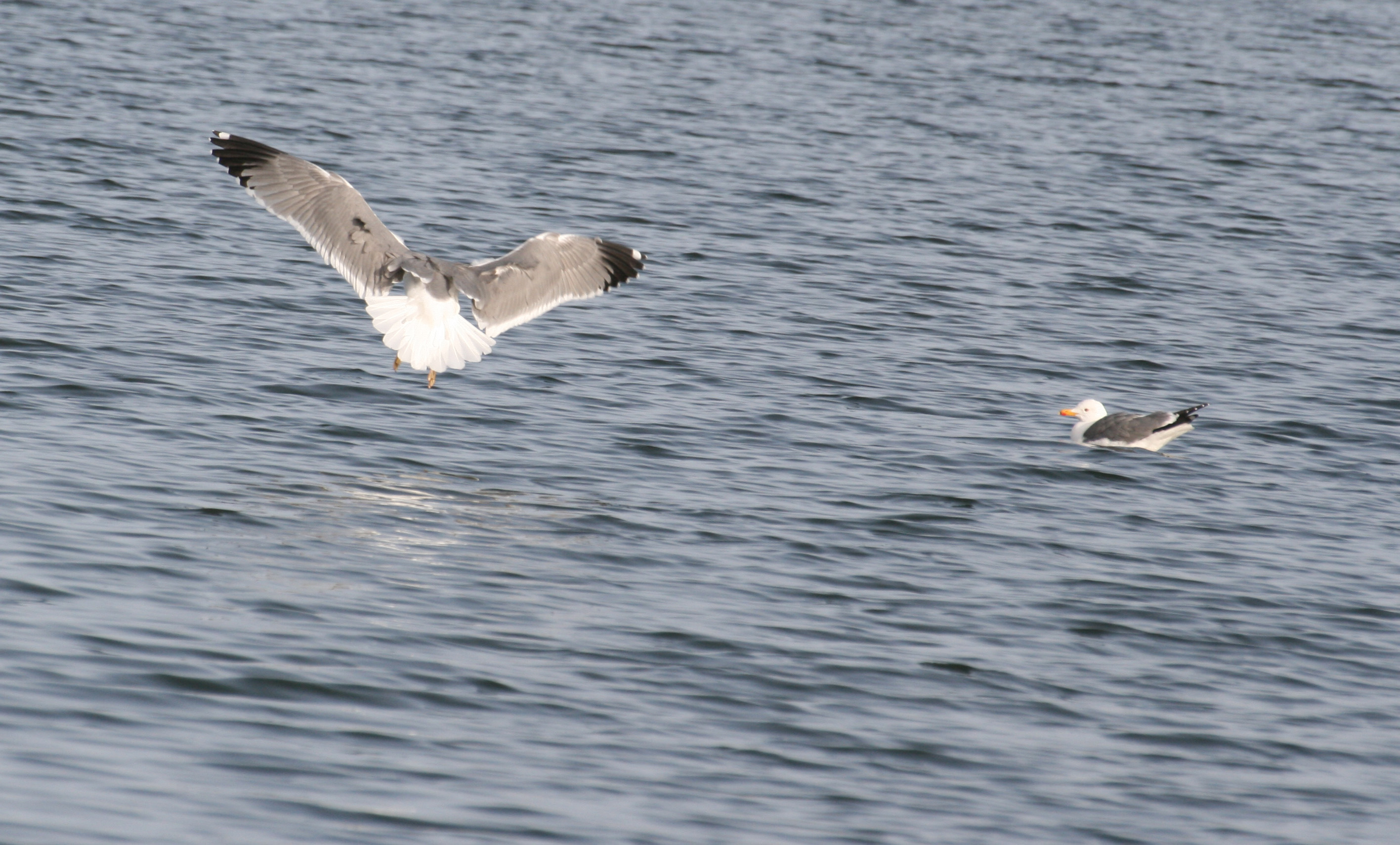 Armenian Gull water landing, near Sevan lake